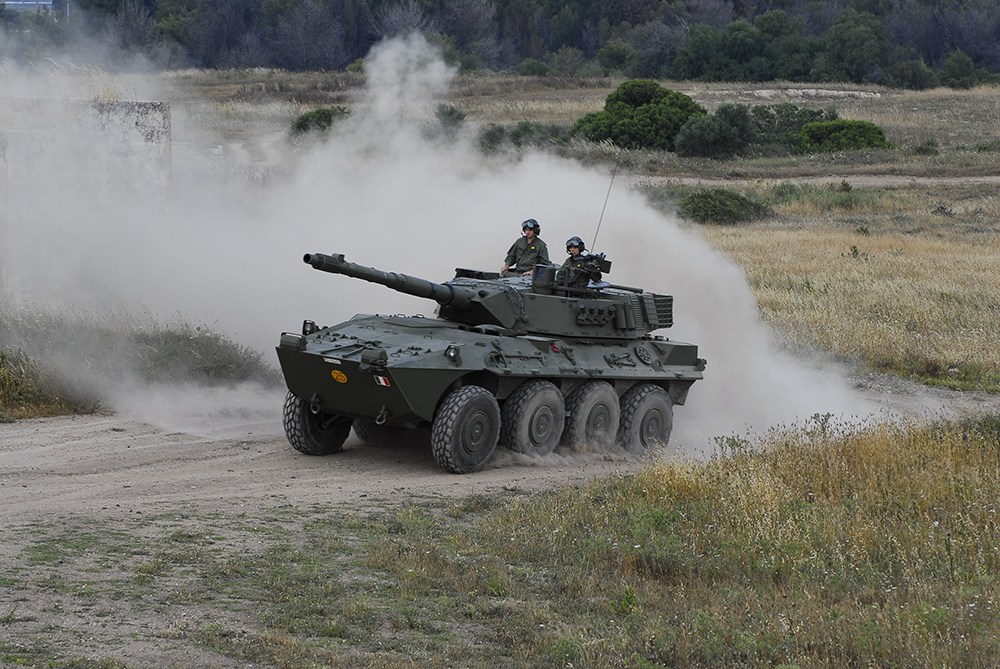 Centauro Tank Destroyer of the Savoia Cavalleria Regiment during a training exercise